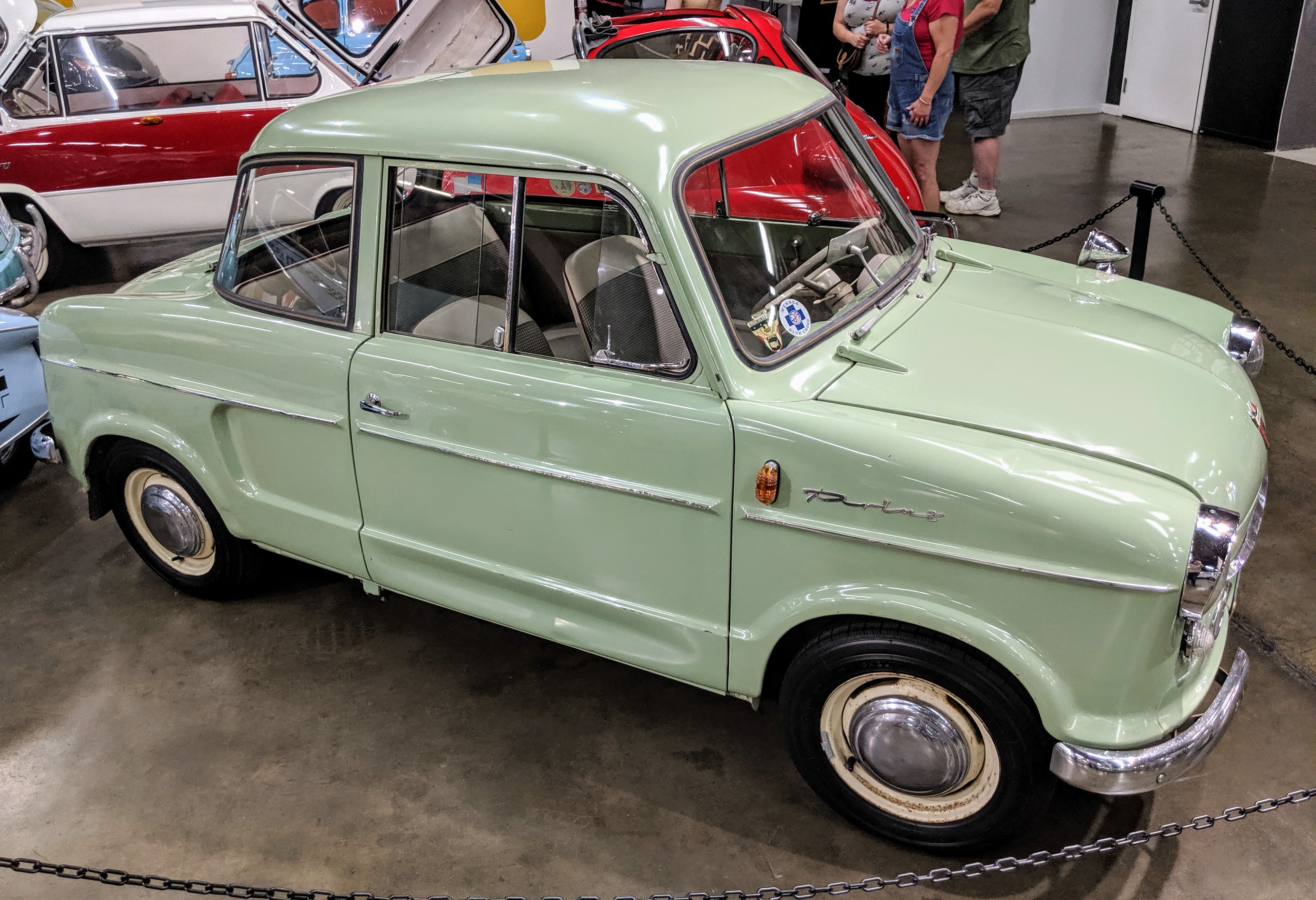 A 1960 NSU Prinz II, on display at the California Automobile Museum in Sacramento. Photo by Jim Heaphy.